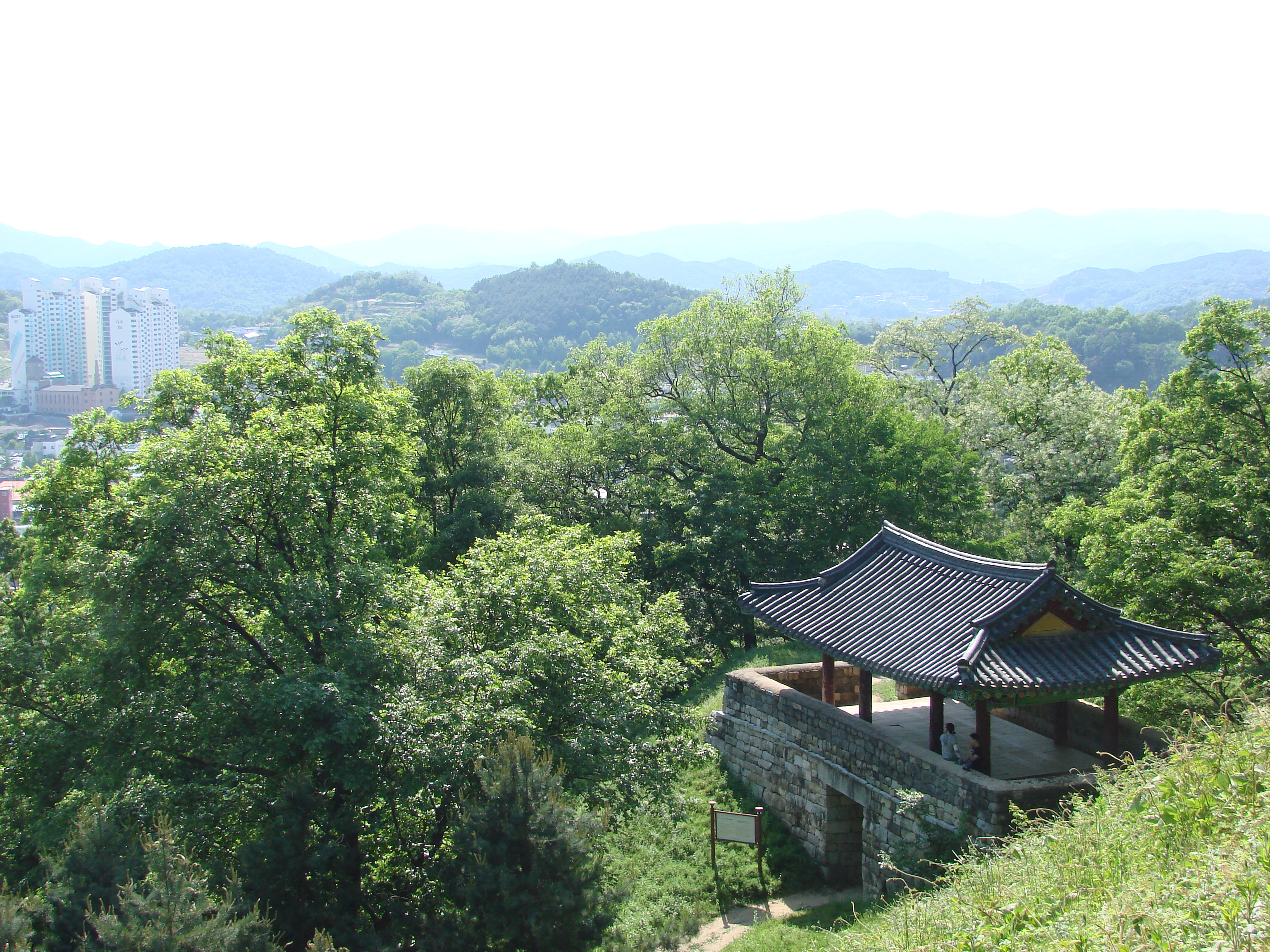 Pavilion at Gongsanseong in Gongju, South Korea.